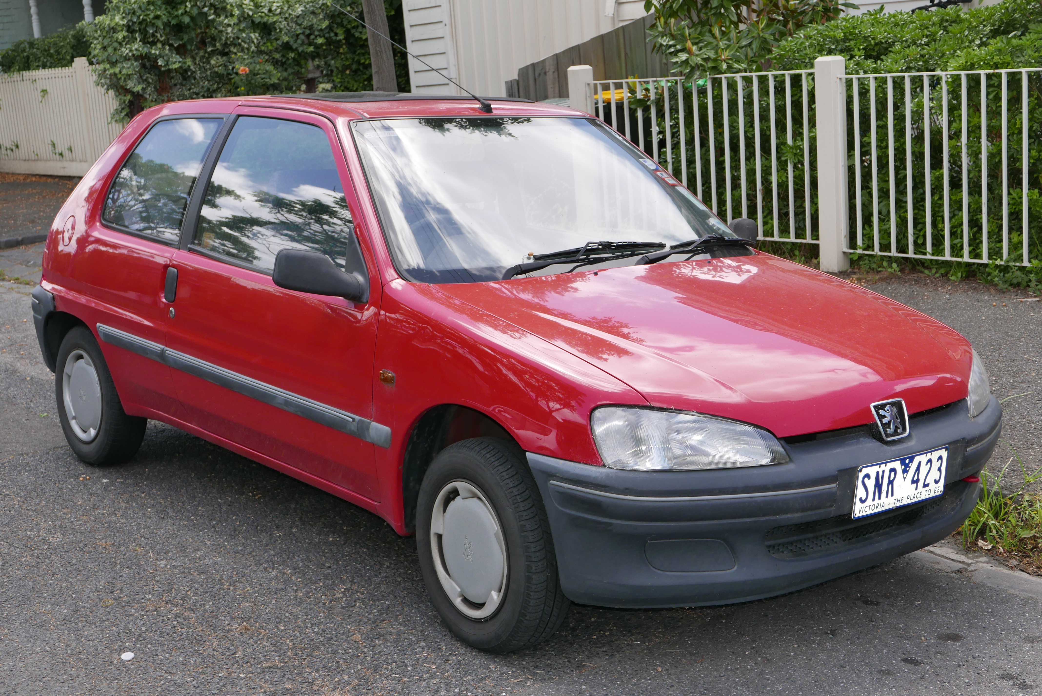 1997 Peugeot 106 XN 1.1 3-door hatchback. This is a grey import from the United Kingdom, complianced for Australia in September 2003. Photographed in Brunswick, Victoria, Australia. Vehicle registration enquiry results Jurisdiction Victoria Registration SNR423 Chassis code VF31CHDZE51934819 Engine code 10FP4G2534281 Compliance date 2003-09 Year of manufacture 1997 (not a typo)